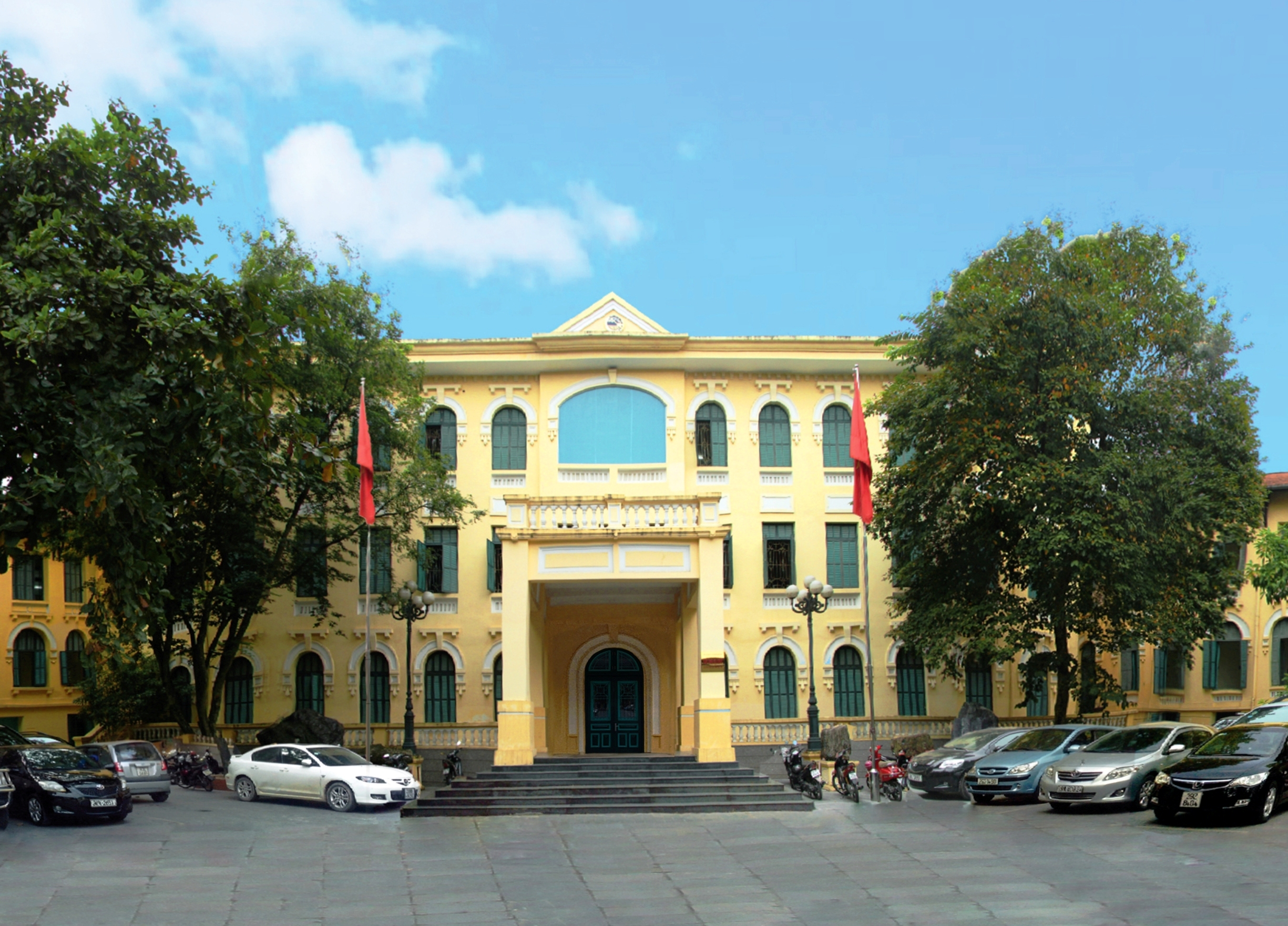 Front view of Geological Museum of Vietnam, Hanoi